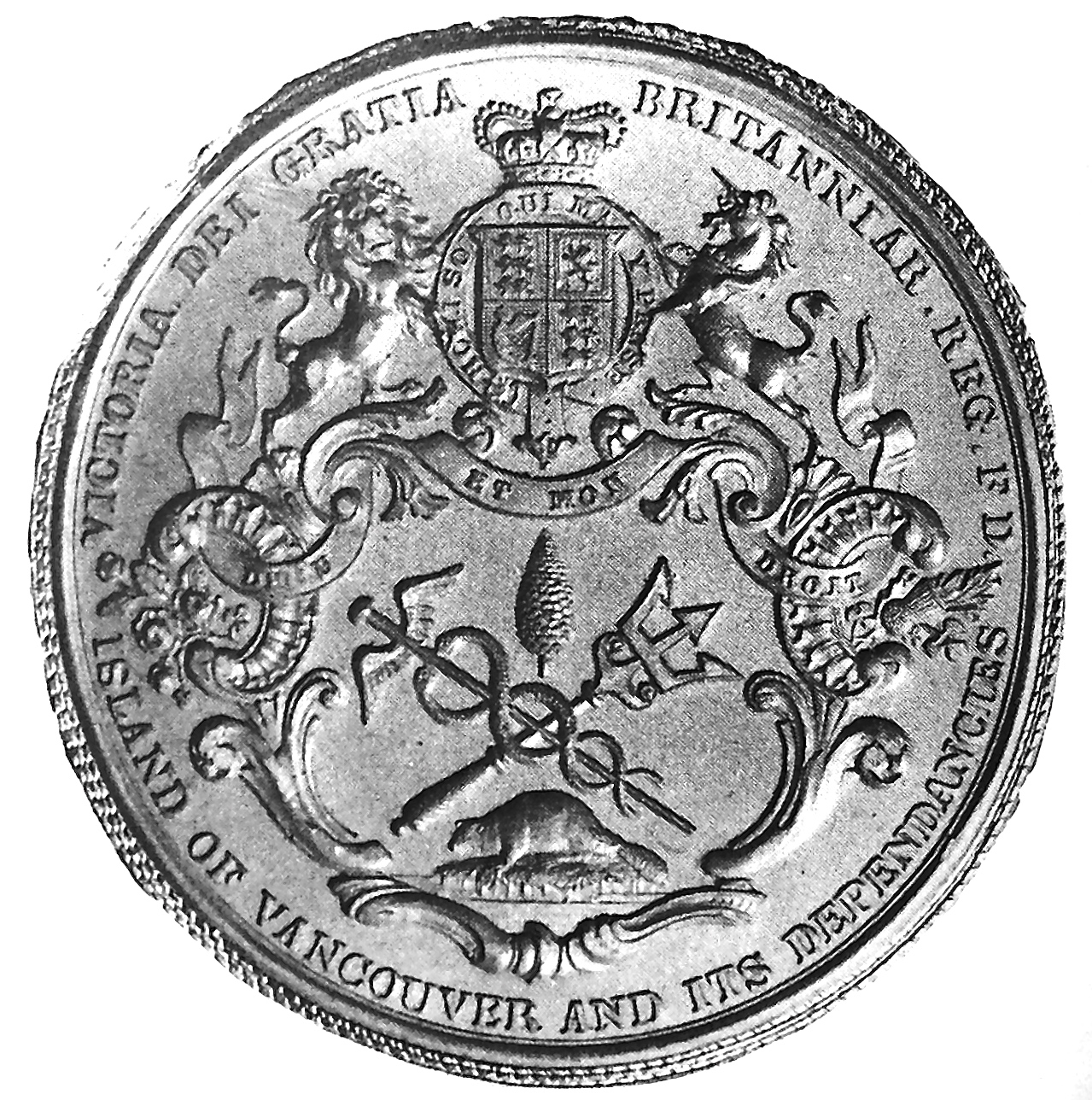 Photograph of the Great Seal of Colony of the Island of Vancouver and its Dependencies (c. 1849). Designed by Benjamin Wyon (1802-1858), Chief Engraver of Her Majesty's Seals. Original held at British Museum. This seal is on the classic pattern of British colonial seals from the Nineteenth Century, and combines the Royal Arms of Queen Victoria in the top third of the image with the symbols of the colony in a highly stylised shield or badge on the bottom two thirds. The principal symbols of the badge are Trident of Neptune and the Caduceus of Hermes crossed in saltire. These represent the sea and trade respectively. Above this is set a pine cone, and below is a beaver sitting on a small island surrounded by water. These represent the forest and other natural resources of the colony and perhaps also the early connection of the colony to the Hudson’s Bay Company (who also bore a beaver on their arms). The seal was only in use from the time of its creation until the union of Vancouver Island with its neighbouring colony on the mainland, British Columbia, in 1866. The united colony would, in turn, join the Canadian confederation in 1871. These symbols have, however, lived on, with a similar version of the British Royal Arms and colonial badge being featured on the Victoria Times Colonist newspaper, which originates in from the colonial period. In addition to this there is the flag of Vancouver Island, which is a British blue ensign flag with the badge of the colony in a white disk on the fly, which is still commonly flown on Vancouver Island. Sources consulted: Swan, Conrad. Canada: Symbols of Sovereignty, University of Toronto Press, 1977 (pp 181)